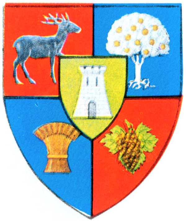 Interwar coat of arms of Satu Mare County, Kingdom of Romania.